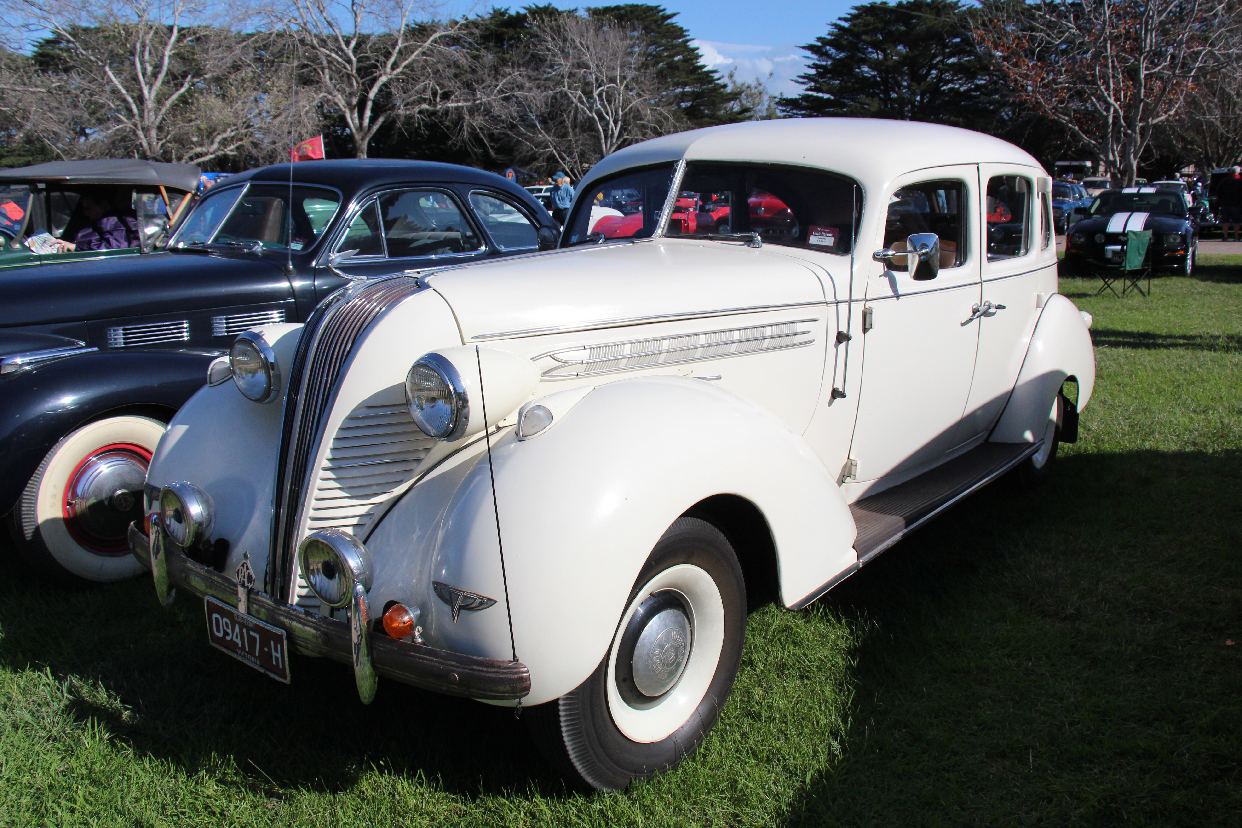 The Terraplane was a car built by the Hudson Motor Car Company between 1932 and 1938. In its maiden year, the car was branded as the Essex-Terraplane; in 1934 the car became simply the Terraplane. They were inexpensive yet powerful vehicles. Terraplanes also were built outside the U.S. in England and Australia in low volume. Australian law made it impractical to import a fully assembled car and thus main bodies were built by locally at Ruskin Motor Bodies Ltd. and General Motors-Holden's Ltd, both of Melbourne, Victoria. In a few cases these bodies included styles not available in the U.S. market such as tourers and coupe utilities. Engine; 254 cu in straight 8